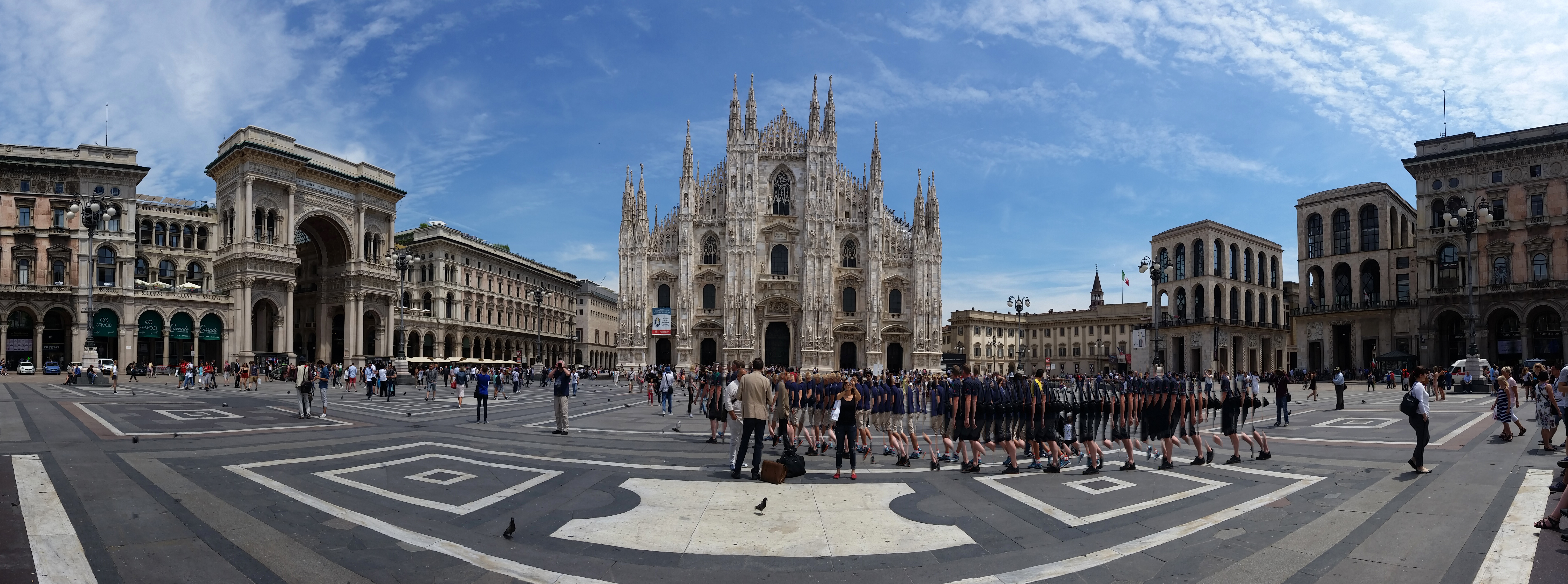 Piazza del Duomo is the main city square in Milan, Italy. The 5th largest cathedral of the world, the Milan Cathedral is located in this square.